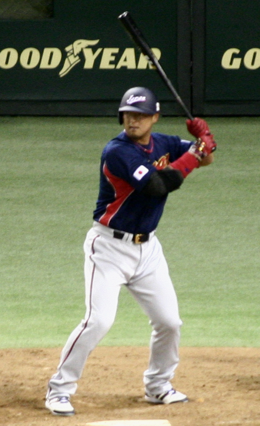 Nobuhiko Matsunaka, infielder of the Japan national baseball team, at Tokyo Dome.